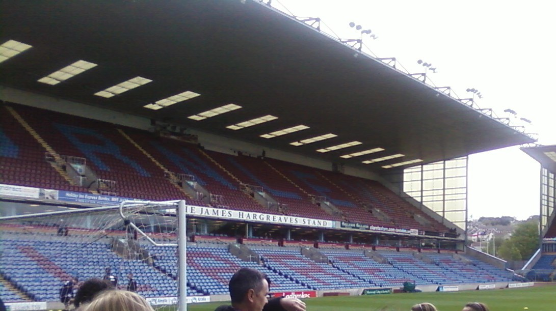 The James Hargreaves stand at Turf Moor, Burnley prior to the play-off match against Reading